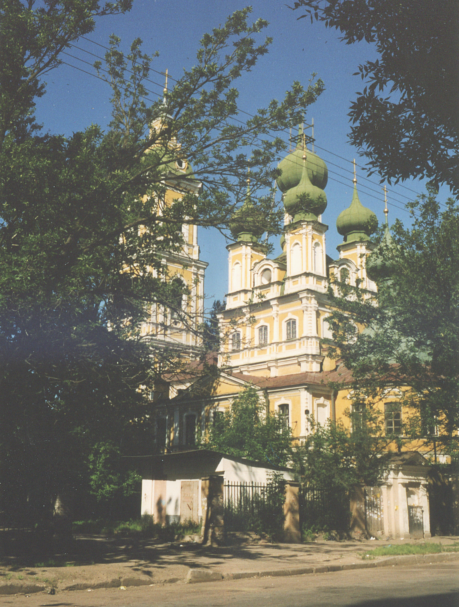 Saint Petersburg (Russia), Vasilievsky Island.